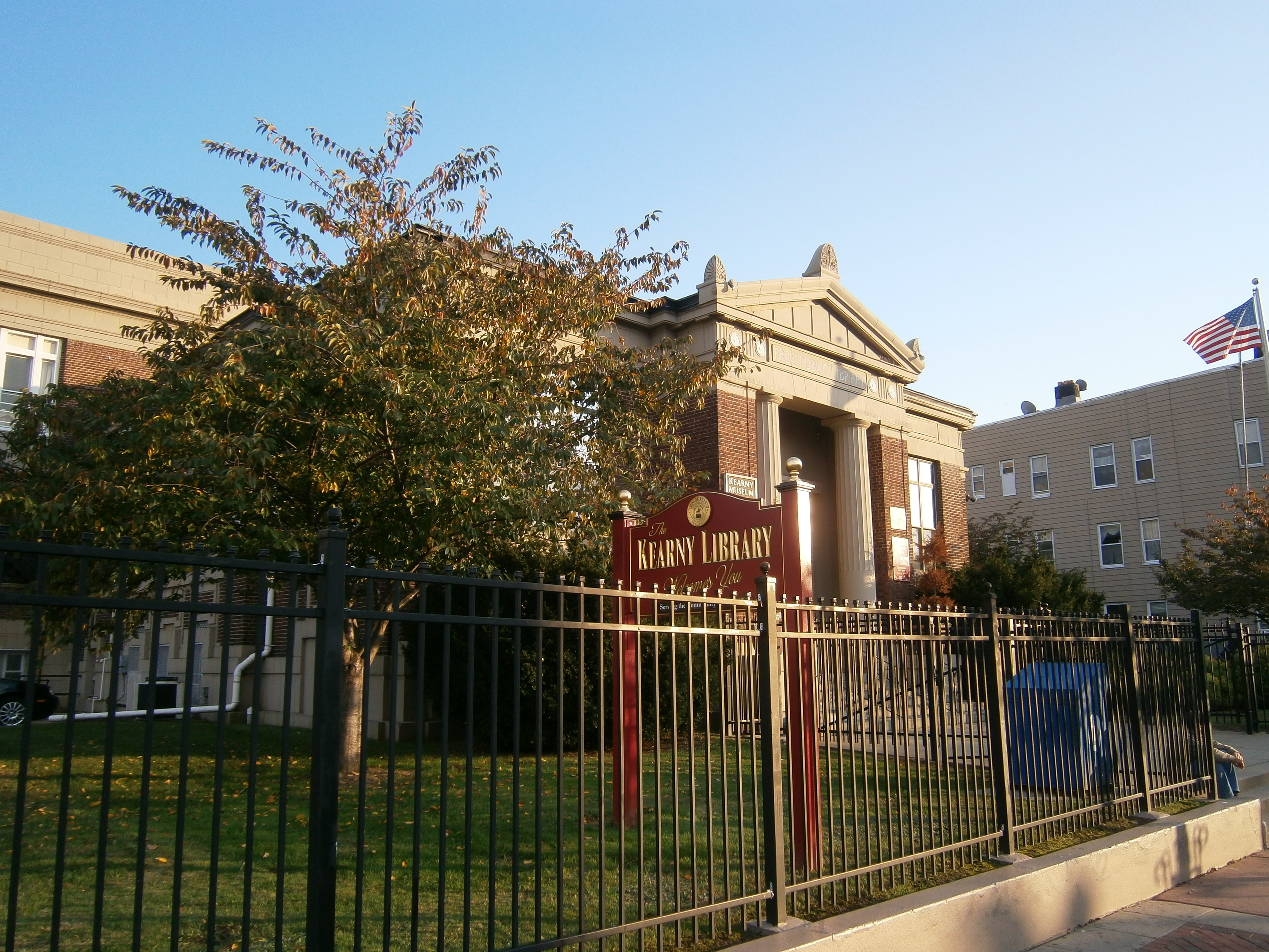 Kearny Public Library is one of NJ's ramaing Carnegie libraries an houses a mueum o local hisotry and artifacts from town's namesake